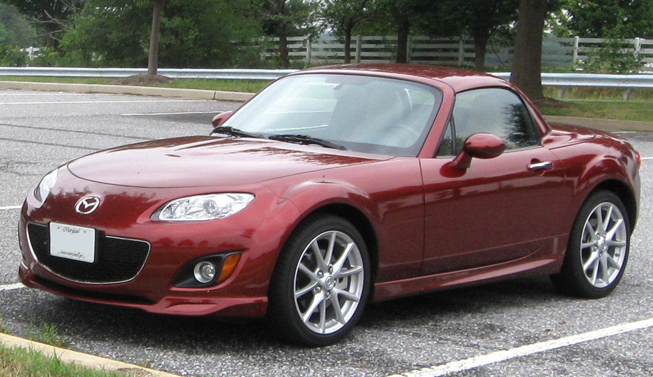 2009 Mazda MX-5 Miata hardtop photographed in Laurel, Maryland, USA.